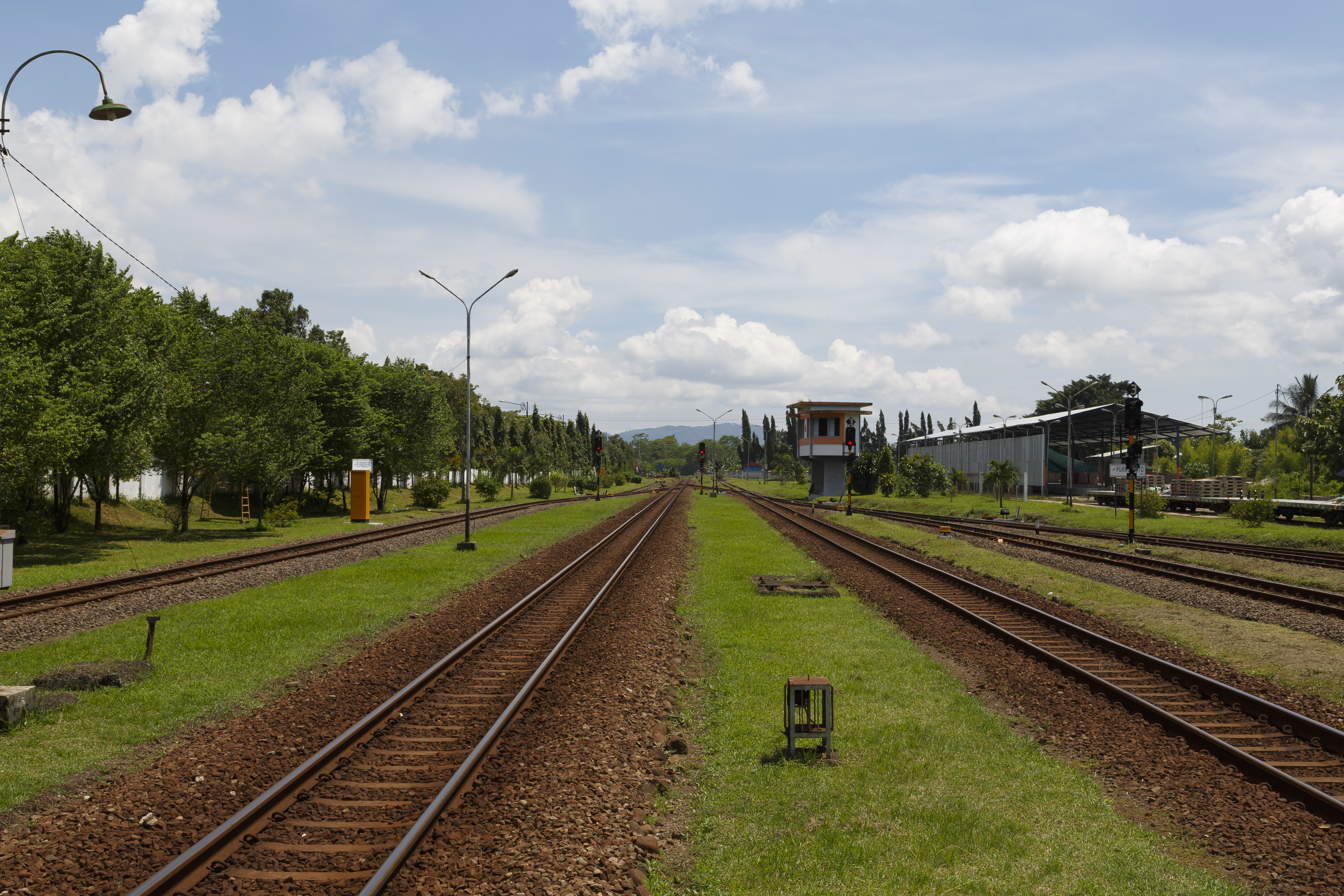 Yogyakarta, Indonesia: Purwokerto Station .